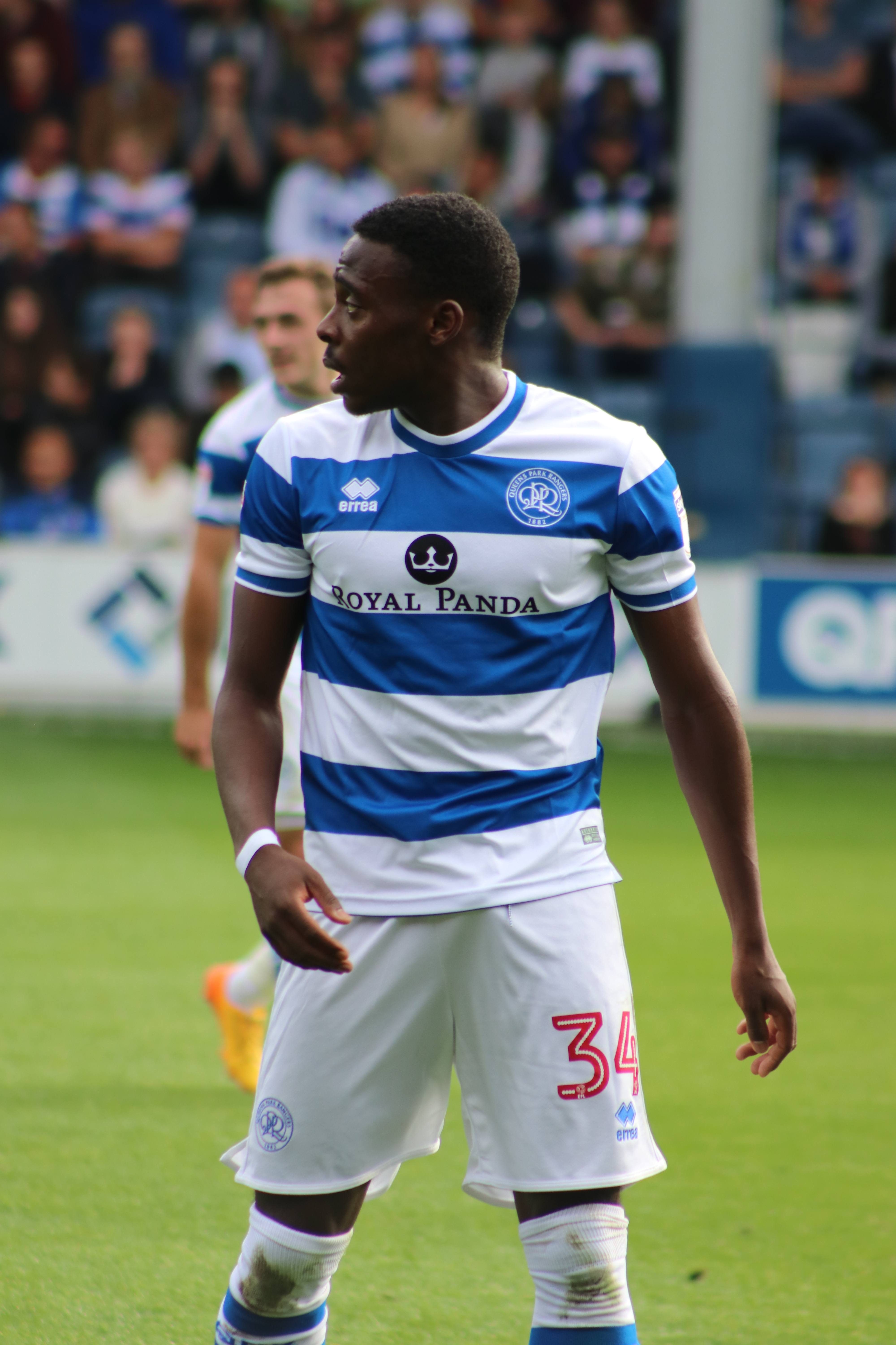 Bright in action for QPR photo taken at Queens Park Rangers v Burton Albion